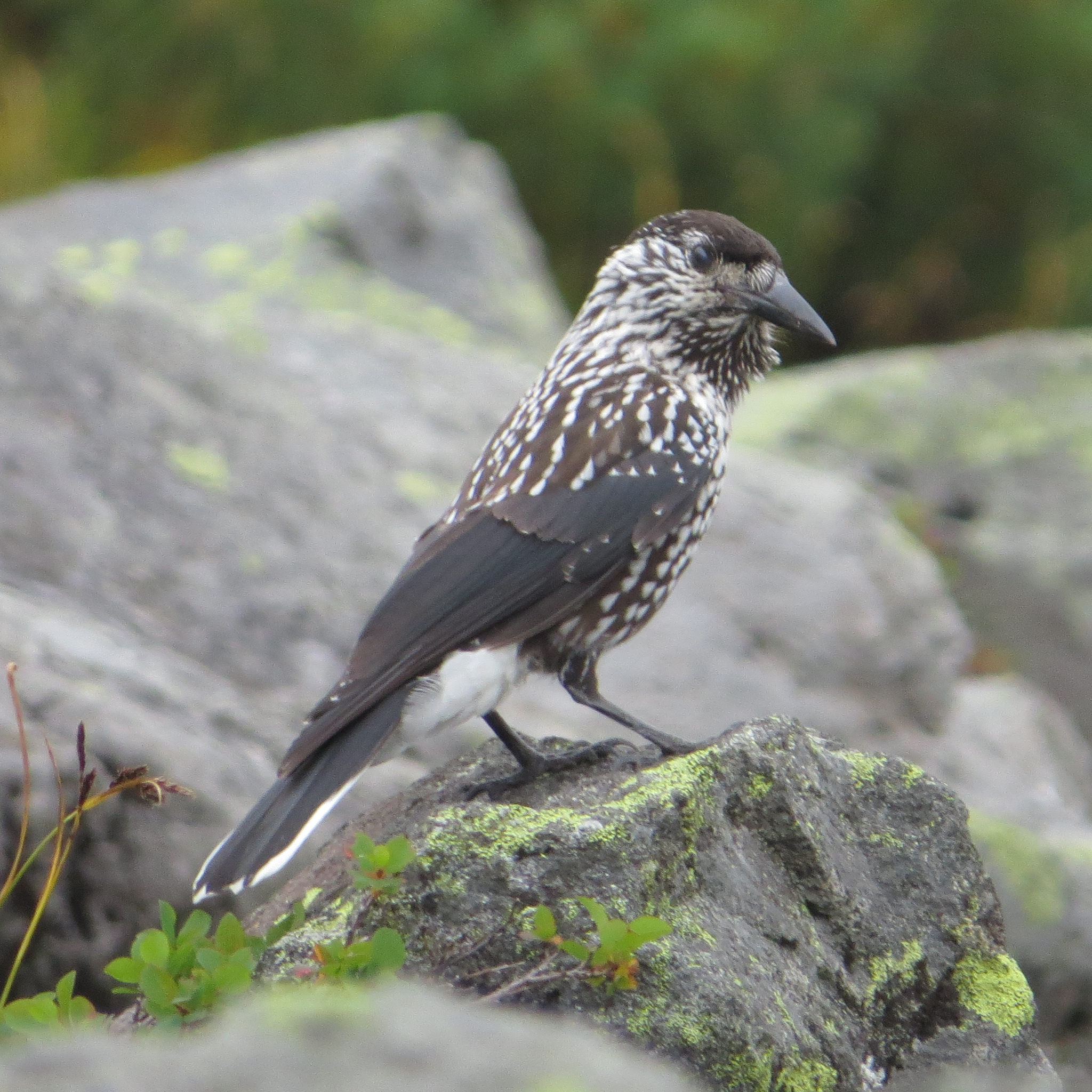 Spotted Nutcracker (Nucifraga caryocatactes (Linnaeus, 1758) ), in Mount Ontake, in Nagano prefecture, Japan.